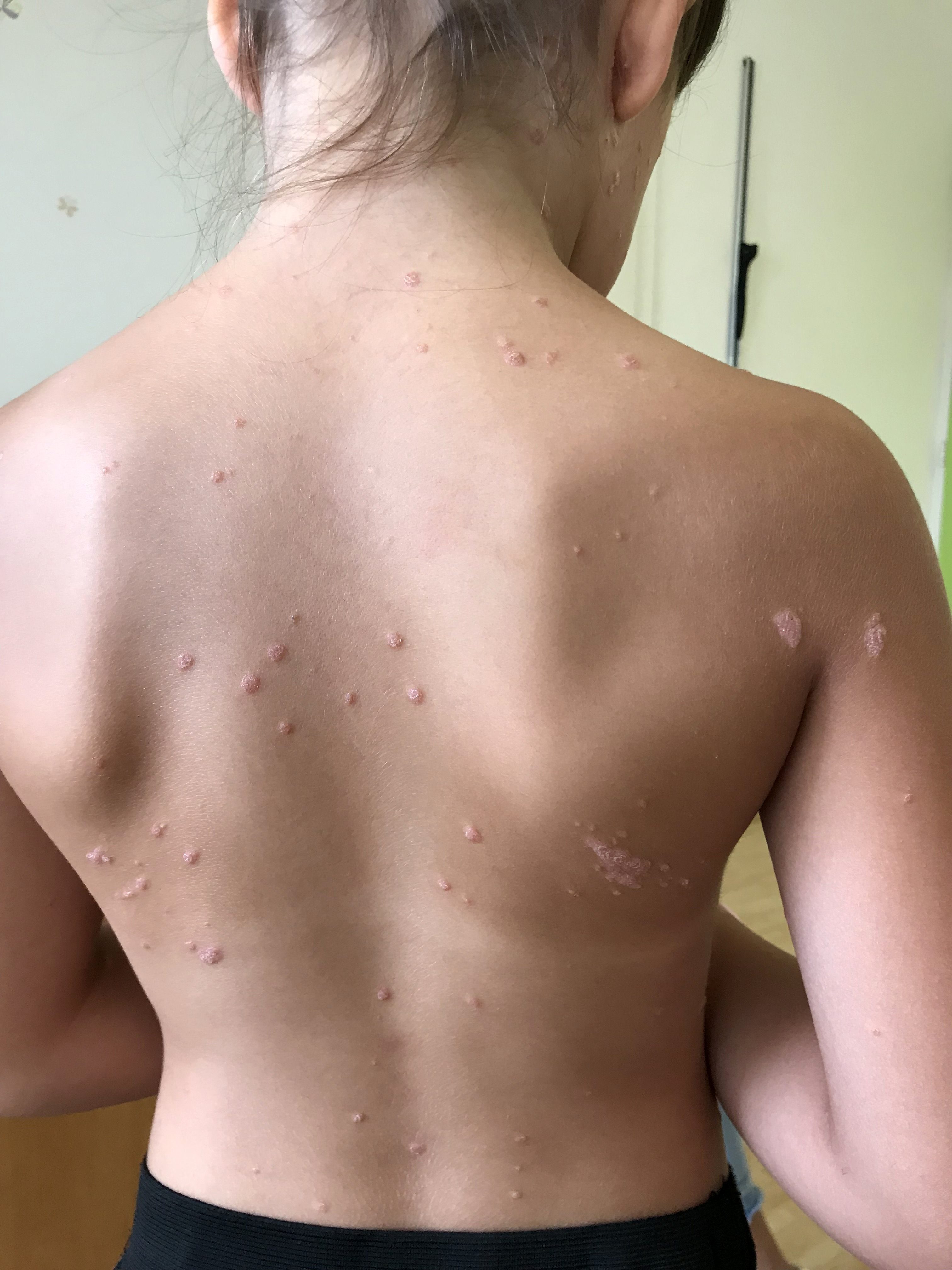 Guttate psoriasis (9 years old girl)